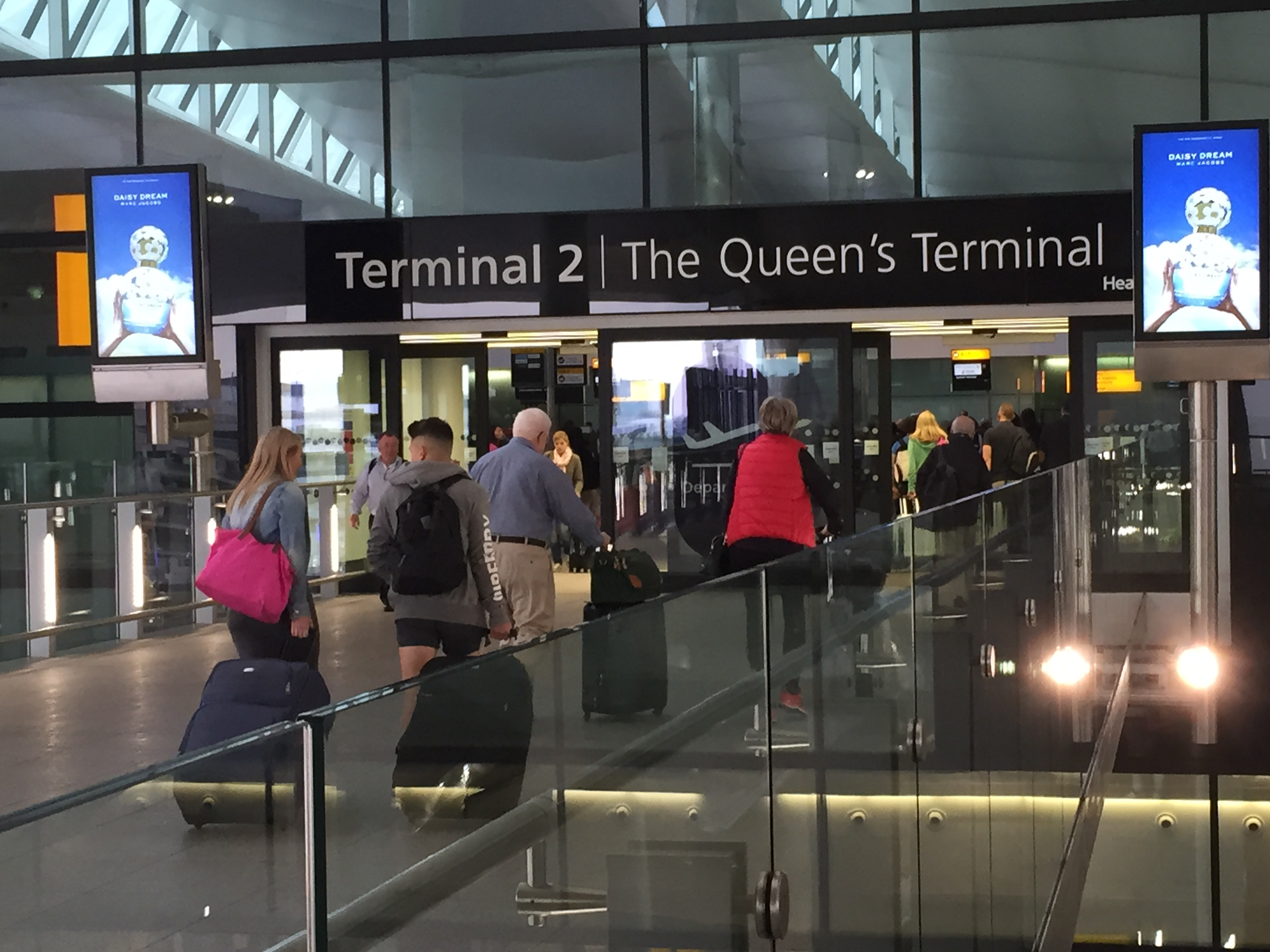 The entrance of the departure hall of London Heathrow Terminal 2 – The Queen's Terminal, London, England, UK.